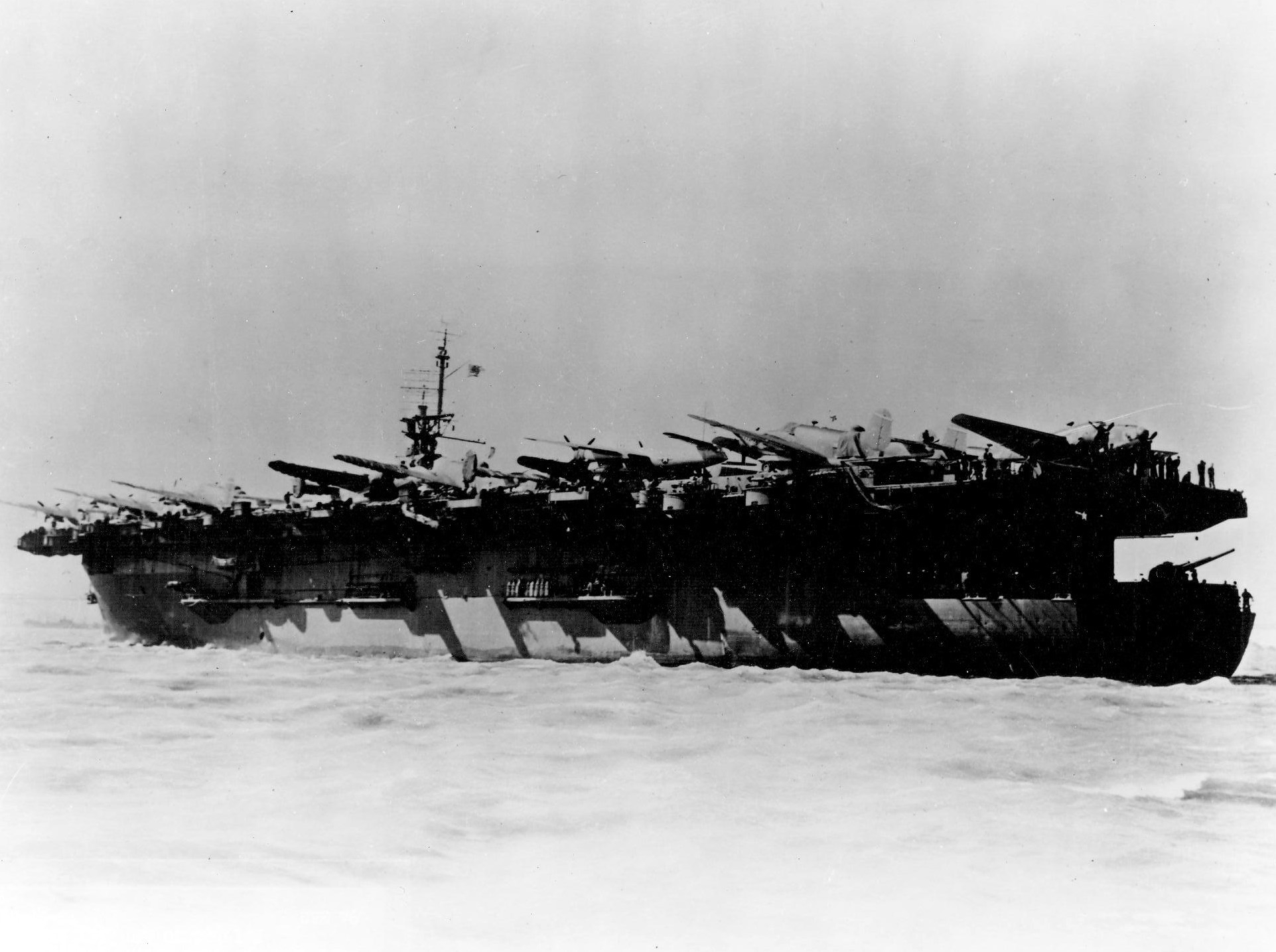 The U.S. Navy escort carrier USS Kadashan Bay (CVE-76) underway transporting aircraft (Lockheed PV and Martin JD).